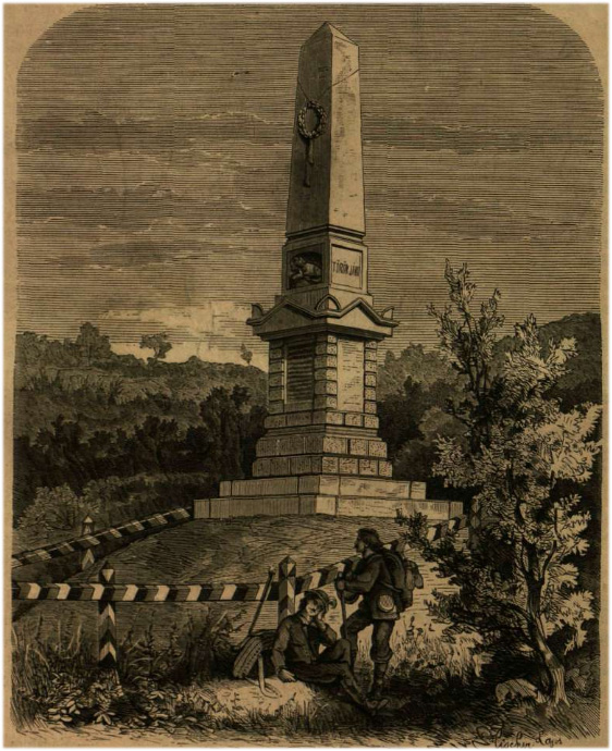 Memorial column of Székely martyrs in Târgu Mureş